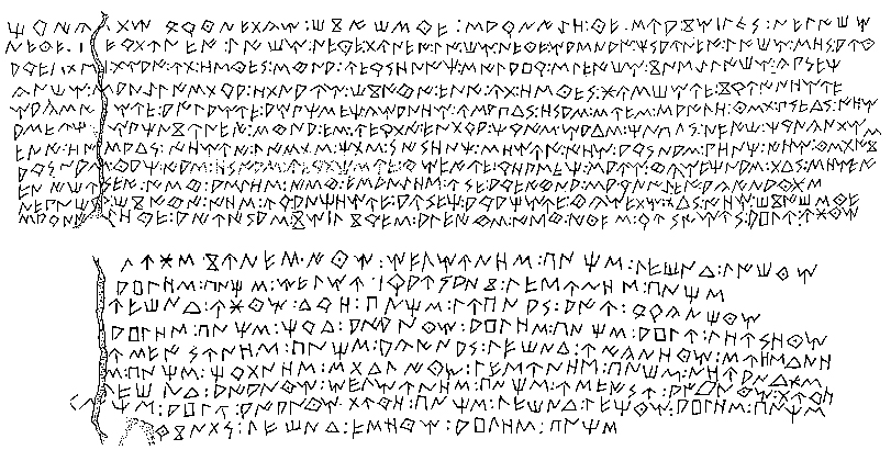 Plaque Botoritta I (location/found?)